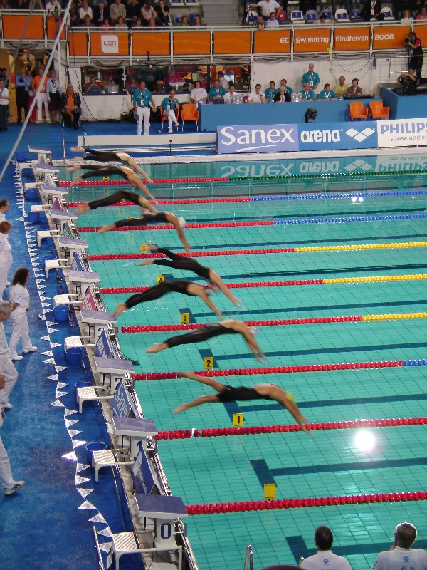 Start of the final of the 400 m freestyle women at the European LC Championships 2008 in Eindhoven, won by Federica Pellegrini in world record time